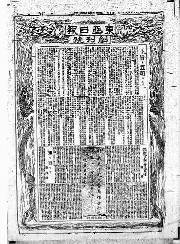 the first edition of Dong-a Ilbo published in Korea, 1st April, 1920.